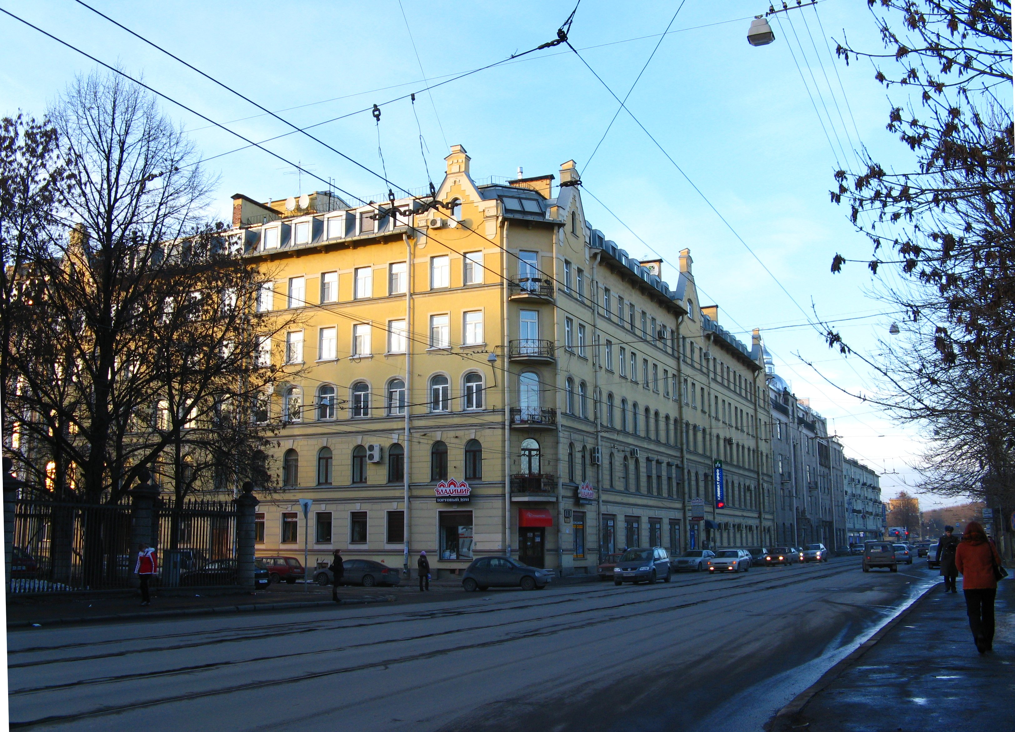 Vyborgskaya,14-Lesnoy,18. Architect- Boris Zonn. (St-Petersburg, Russia)